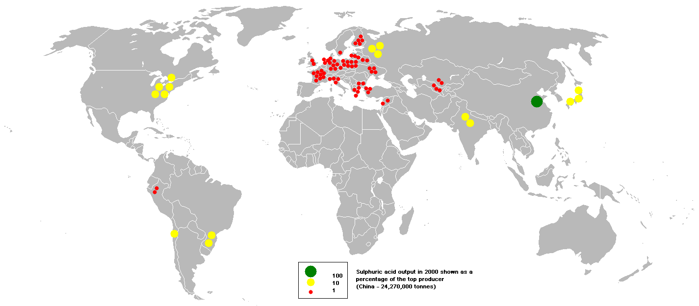 This bubble map shows the global distribution of sulphuric acid output in 2000 as a percentage of the top producer (China - 24,270,000 tonnes). This map is consistent with incomplete set of data too as long as the top producer is known. It resolves the accessibility issues faced by colour-coded maps that may not be properly rendered in old computer screens. Data was extracted on 16th June 2007. Source - Based on :Image:BlankMap-World.png